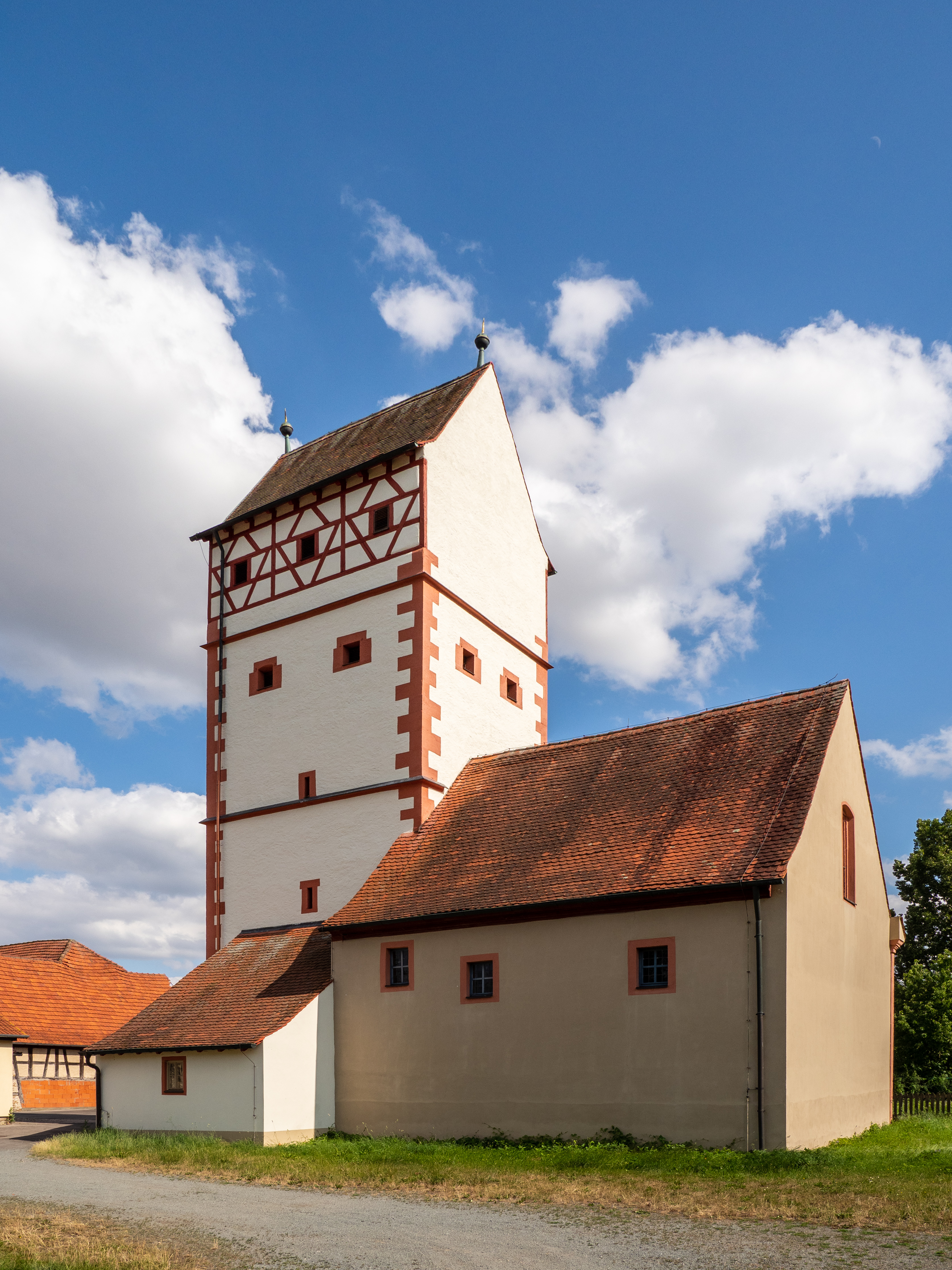 Village church in Römershofen